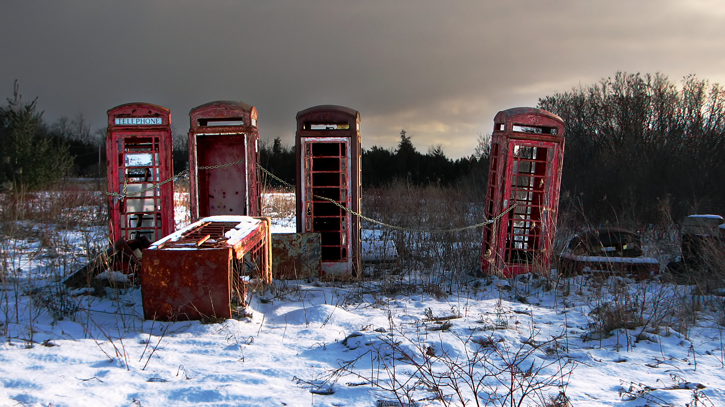 Booths in a field, Ashburn, Ontario Canada